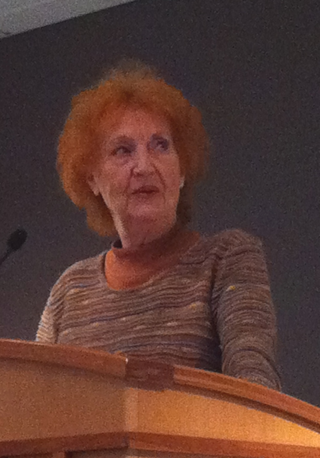 Elsa Lystad holding a speech in December 2011, at age 81